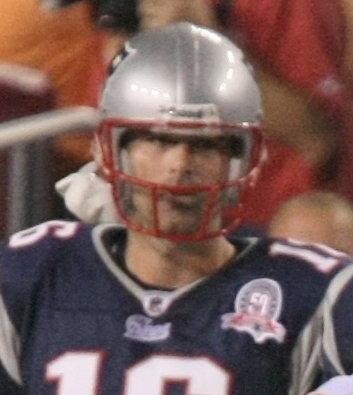 New England Patriots at Washington Redskins 08/28/09